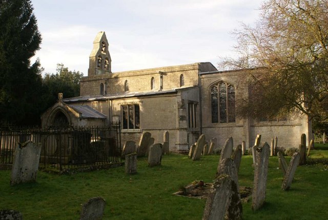 St Pega, Peakirk A unique dedication to this saint, a sister to St Guthlac at nearby Crowland Abbey